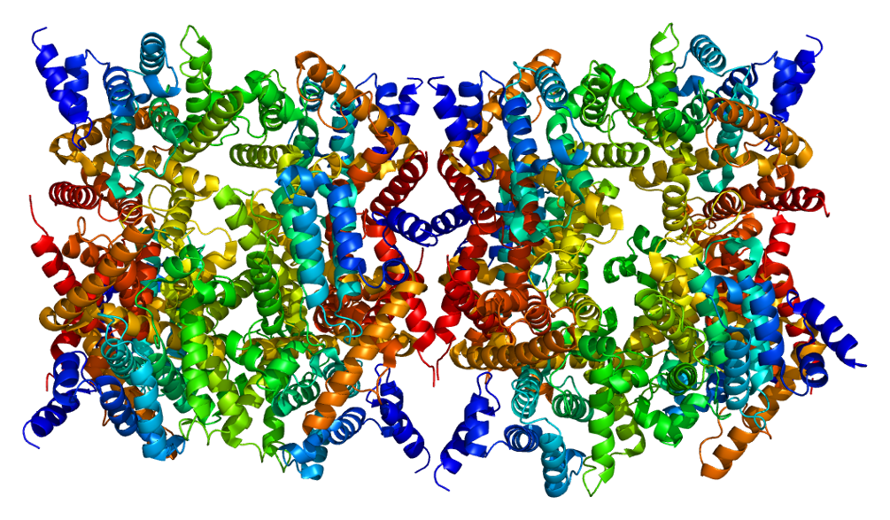 Structure of the PDE4D protein. Based on PyMOL rendering of PDB 1mkd.